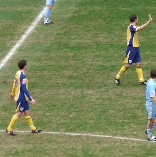 Matthew Oakley (left) and Stephen Clemence. Image cropped from original at Flickr.